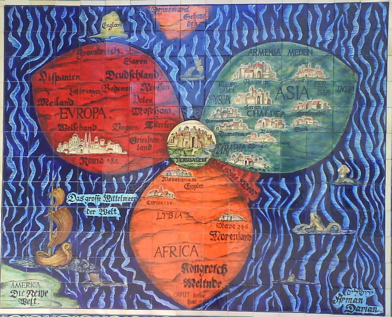 Old World Map Near Jerusalem City Council, made from 180 tiles.